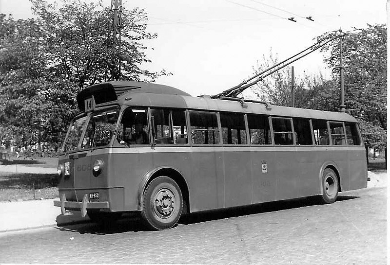 BTH/Valmet D 164099/JE trolleybus no. 606 on Tehtaankatu, Helsinki, Finland